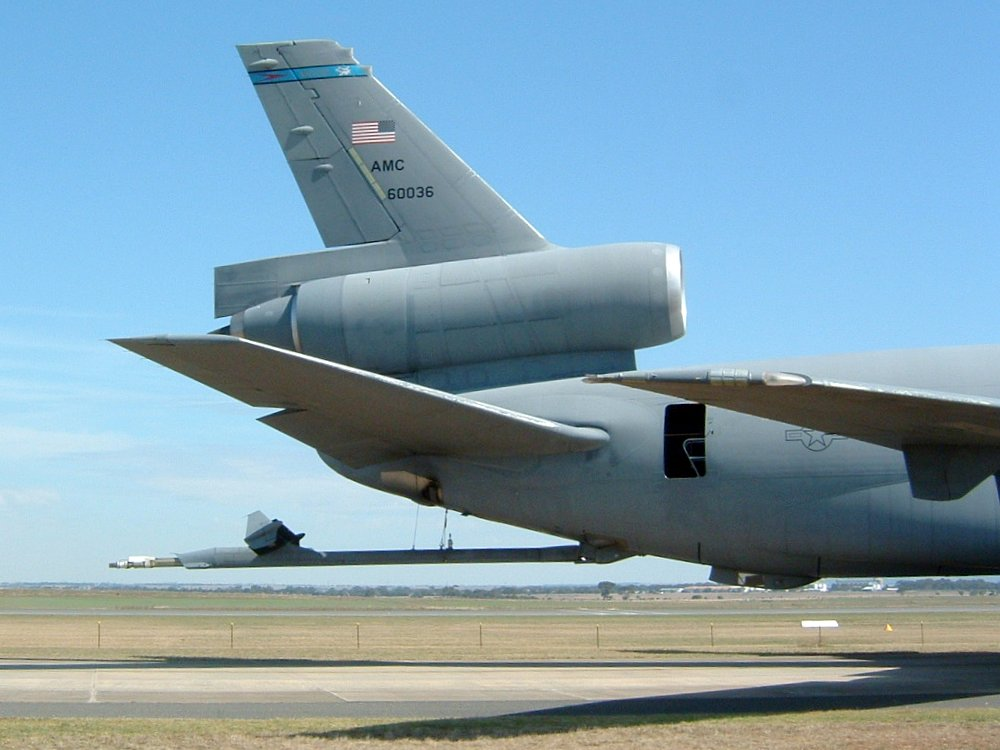 View of the refueling boom on a USAF KC-10 Extender at Avalon Airport, Australia, March 2005.